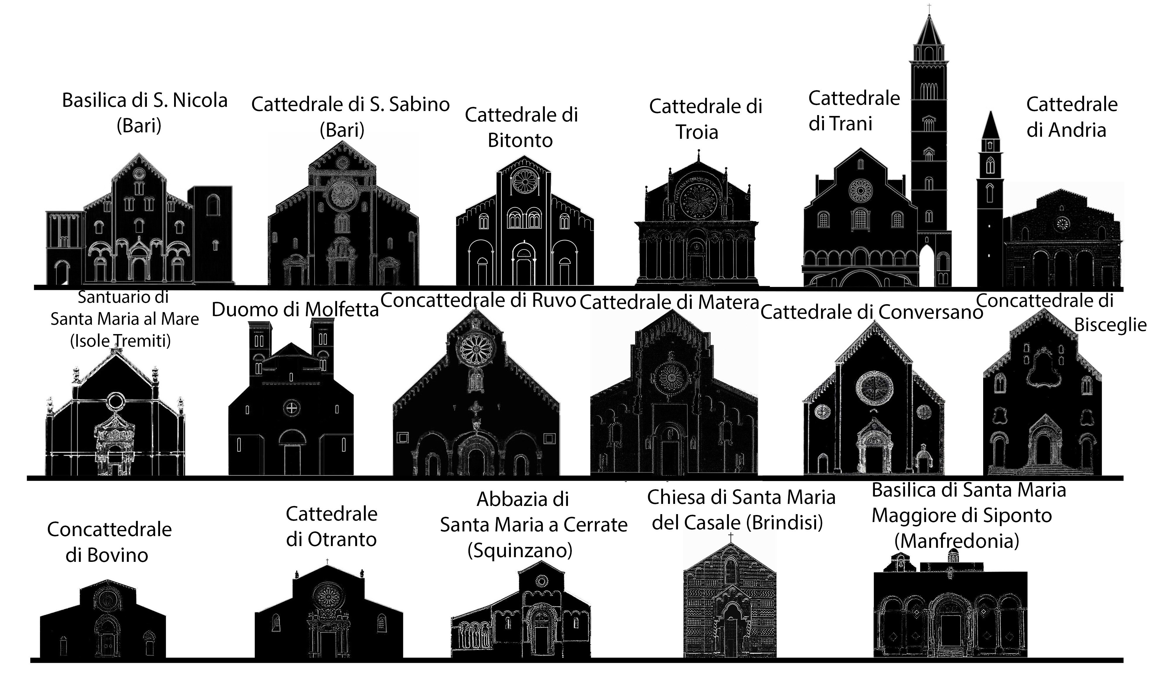 Comparison between the facades of different churches.